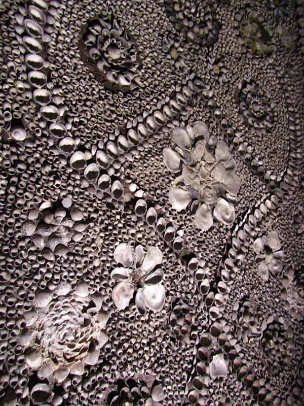 The Shell Grotto is an ornate subterranean passageway in Margate, Kent, UK. Almost all the surface area of the walls and roof is covered in mosaics created entirely of seashells, totalling about 2,000 square feet (190 m2) of mosaic, or 4.6 million shells. It was discovered in 1835 but its age remains unknown. The grotto is a Grade I listed building and is open to the public.